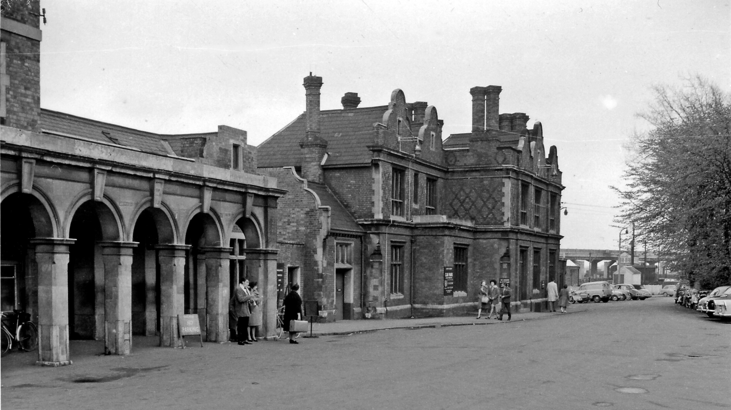 Bletchley Station, exterior. View southward, towards London (and Oxford); ex-LNW London - Rugby - Birmingham and the North WCML, junction for Oxford, Bedford and Cambridge. This was entrance of station, on the Down side before the station was completely rebuilt in 1965 for the WCML electrification. The post-war flyover, connecting with Oxford line - but scarcely used - is visible in the background. Passengers services to Oxford, and Bedford - Cambridge ceased 1/1/68, but were restored Oxford - Bicester on 9/5/87 and may well soon return to Bletchley.